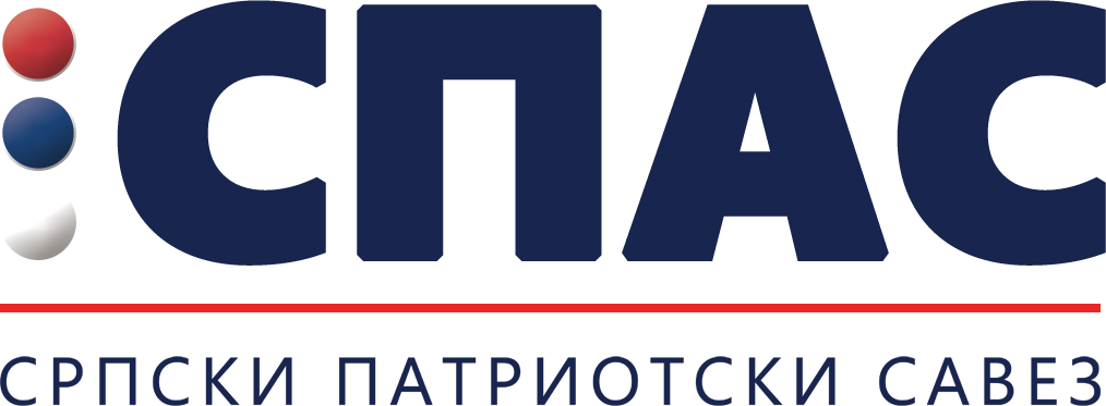 Official SPAS logo